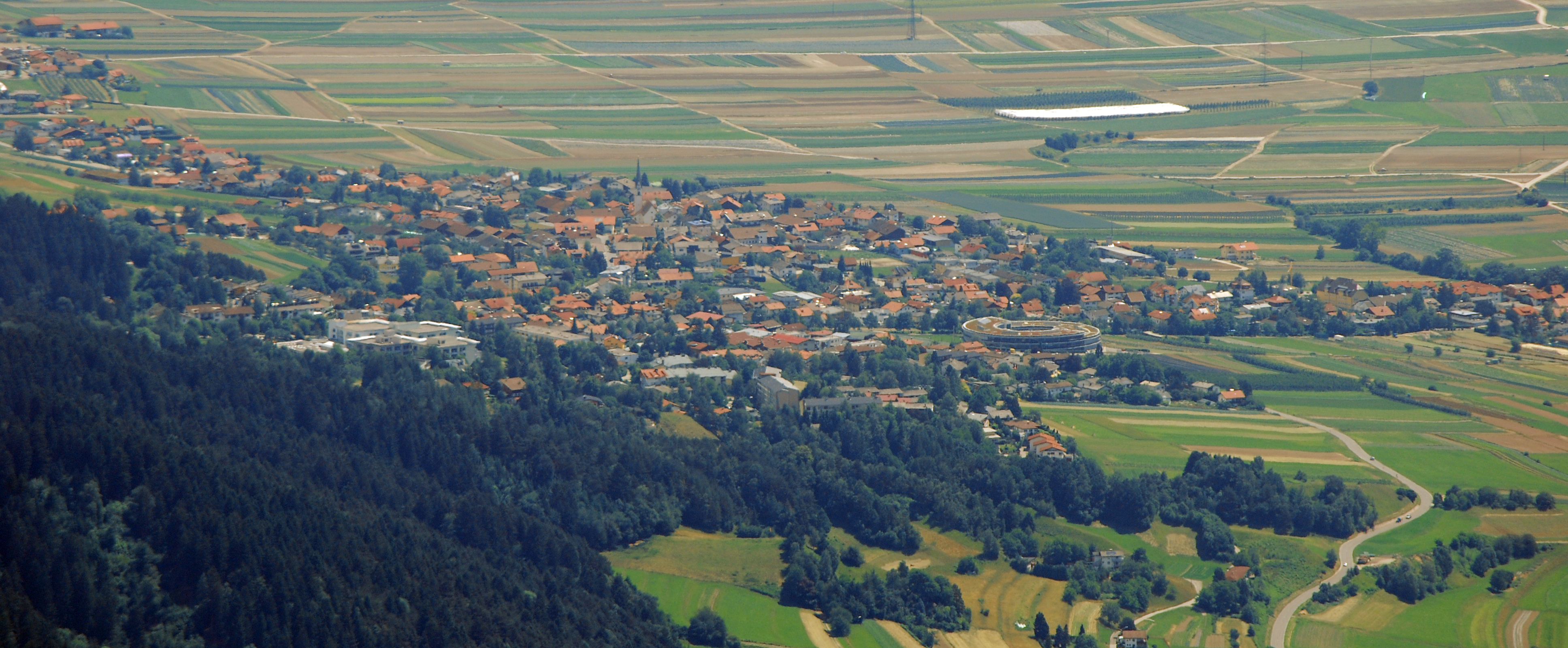 Rum from NW (Brandjoch)